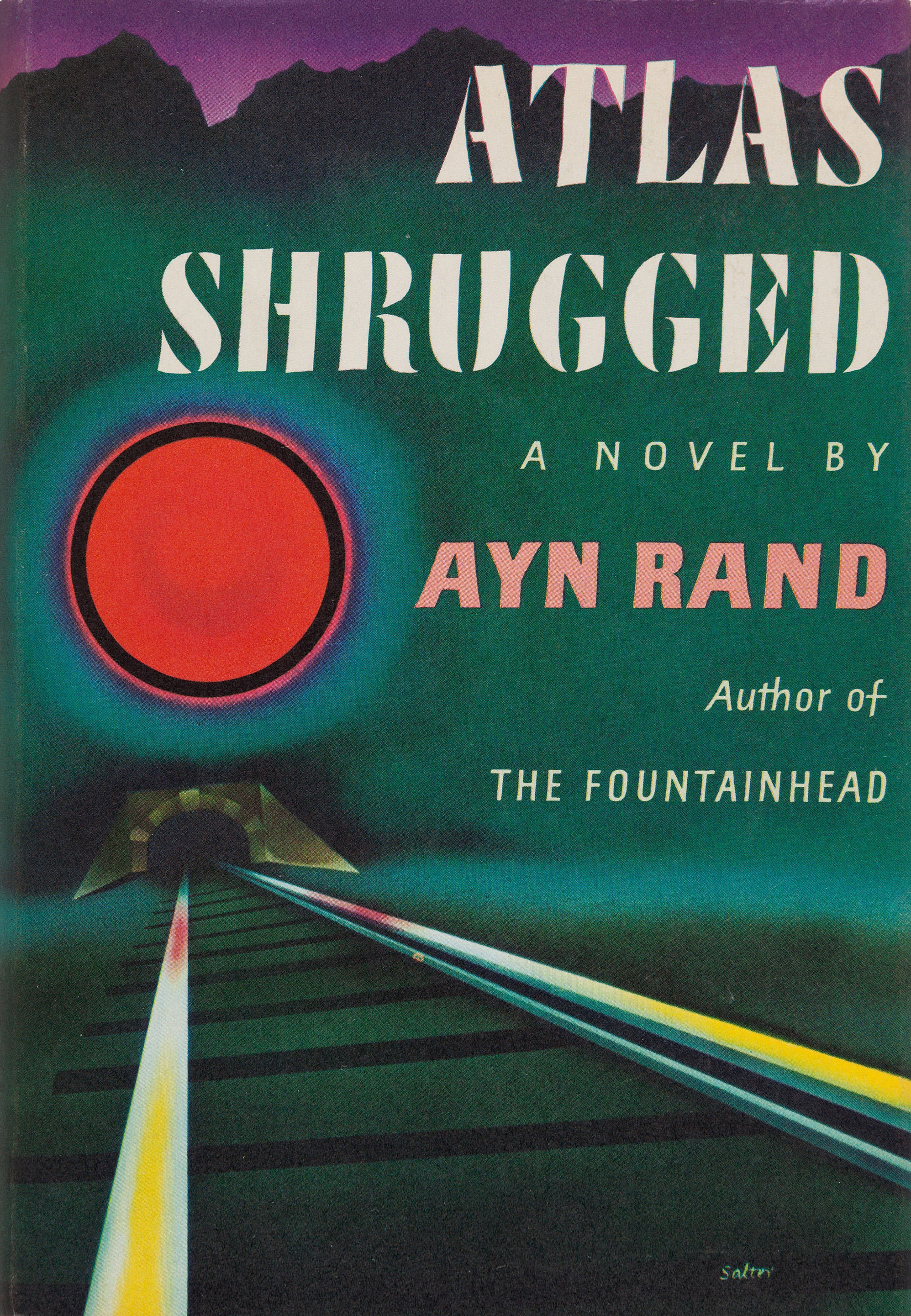 Cover design from the first-edition dust jacket of the 1957 novel Atlas Shrugged by the Russian-American writer Ayn Rand.